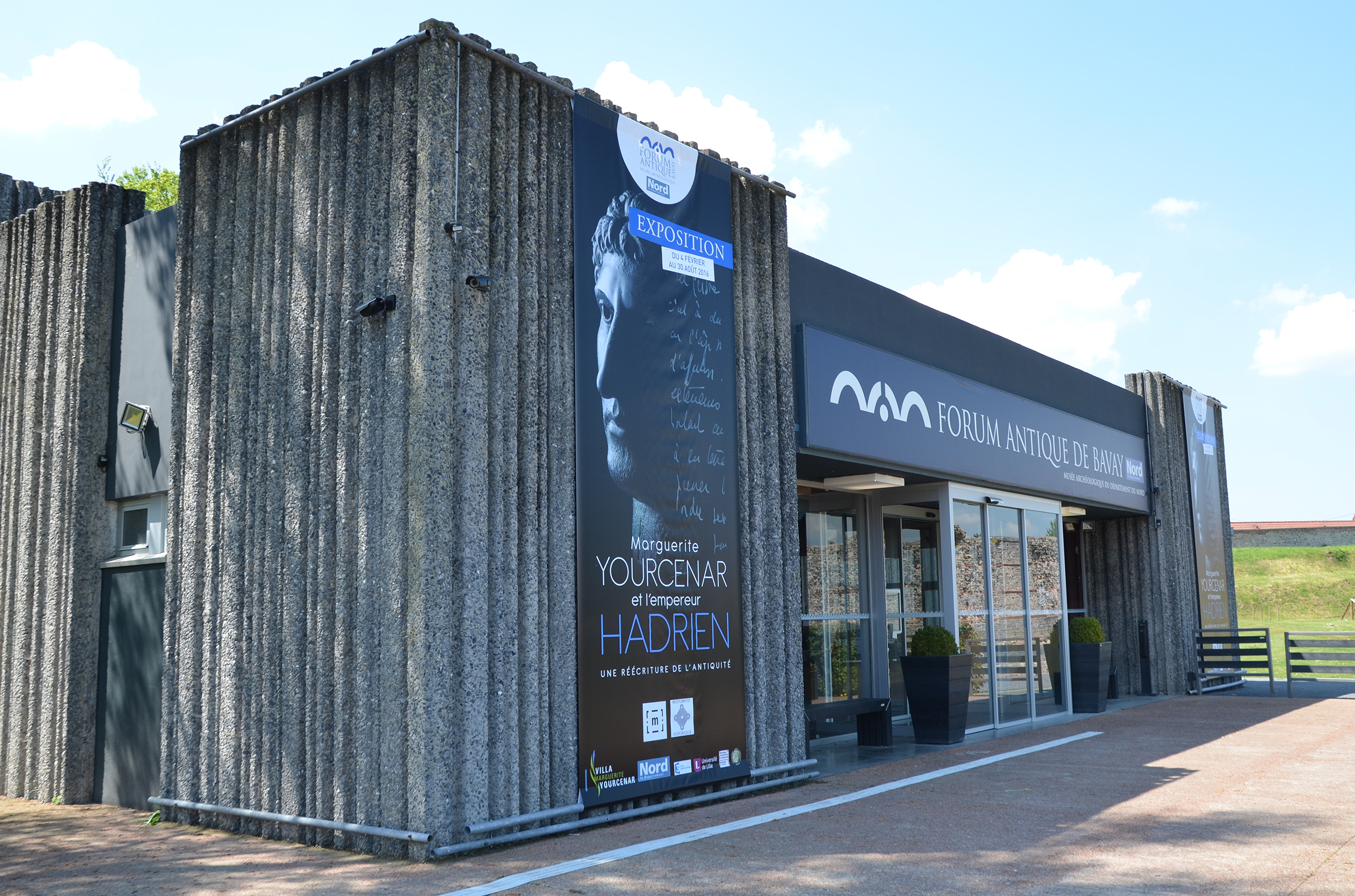 Forum Antique of Bavay, France